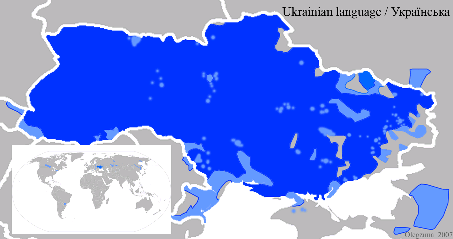 dark blue - territory where the Ukrainian language is used chiefly, light blue - other territories where the language is used.